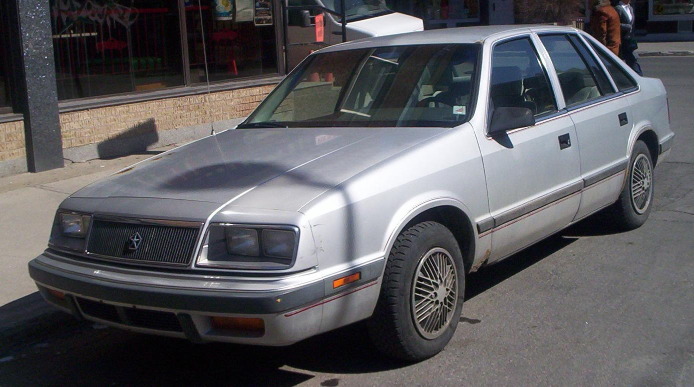 1984-1989 Chrysler LeBaron GTS photographed in Montreal, Quebec, Canada.